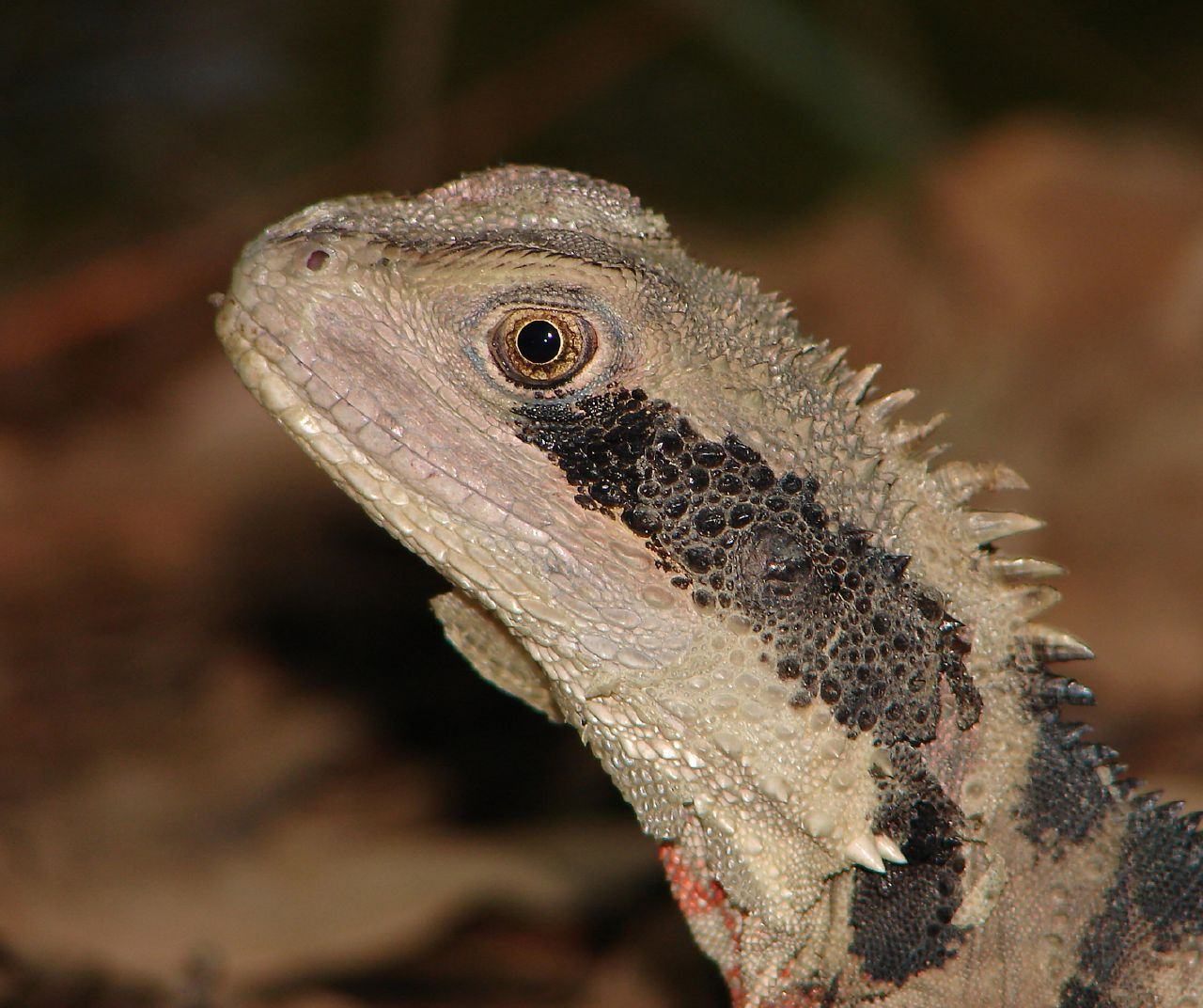 An Australian water dragon (Physignathus lesueurii) at the Auburn Botanical Gardens in Australia.